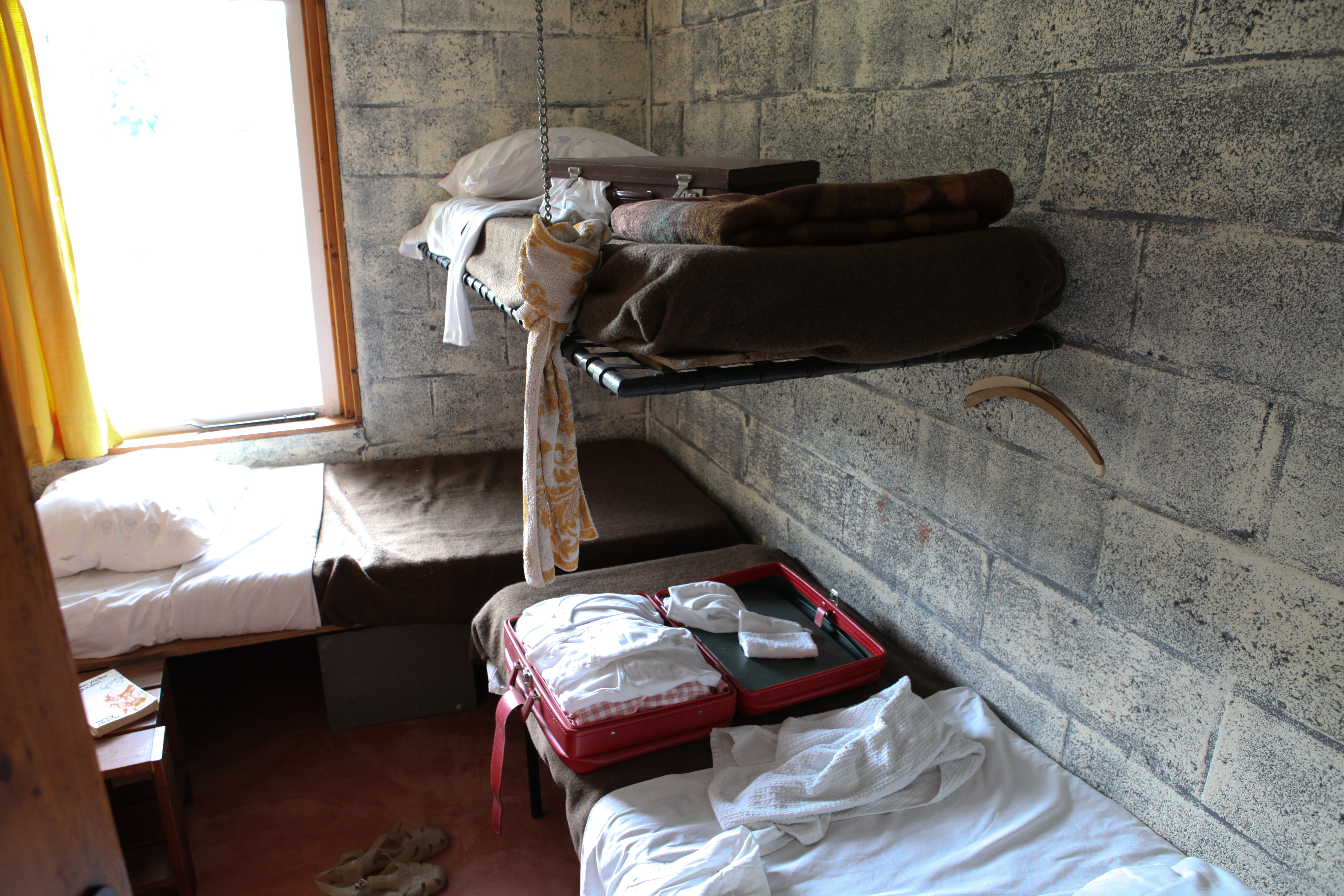 3 person bedroom inside the vacation home by Gerrit Rietveld. This picture is taken inside the last remaining house on display in the Dutch Open Air Museum in Arnhem.